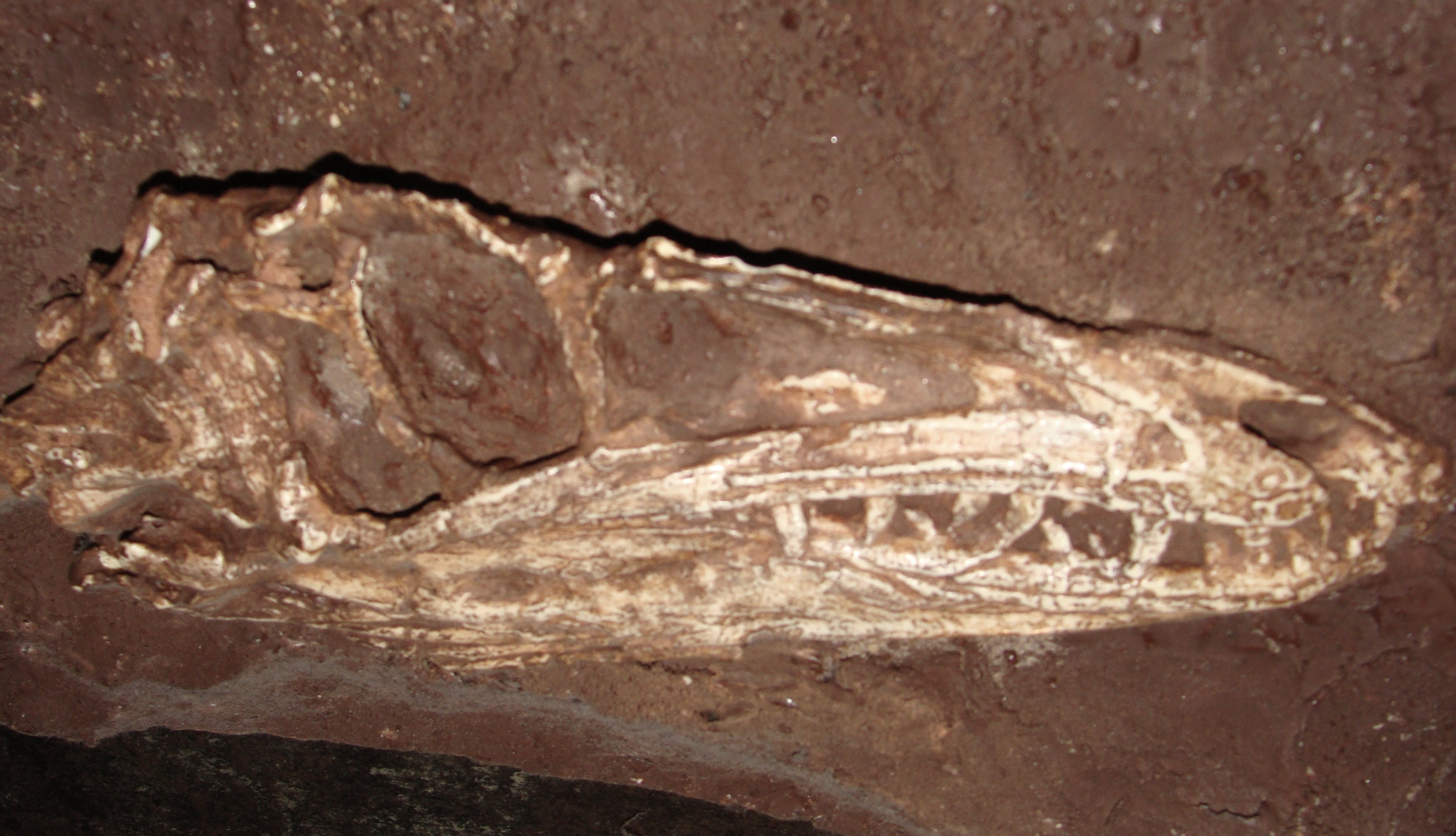 Coelophysis in the Natural History Museum of London